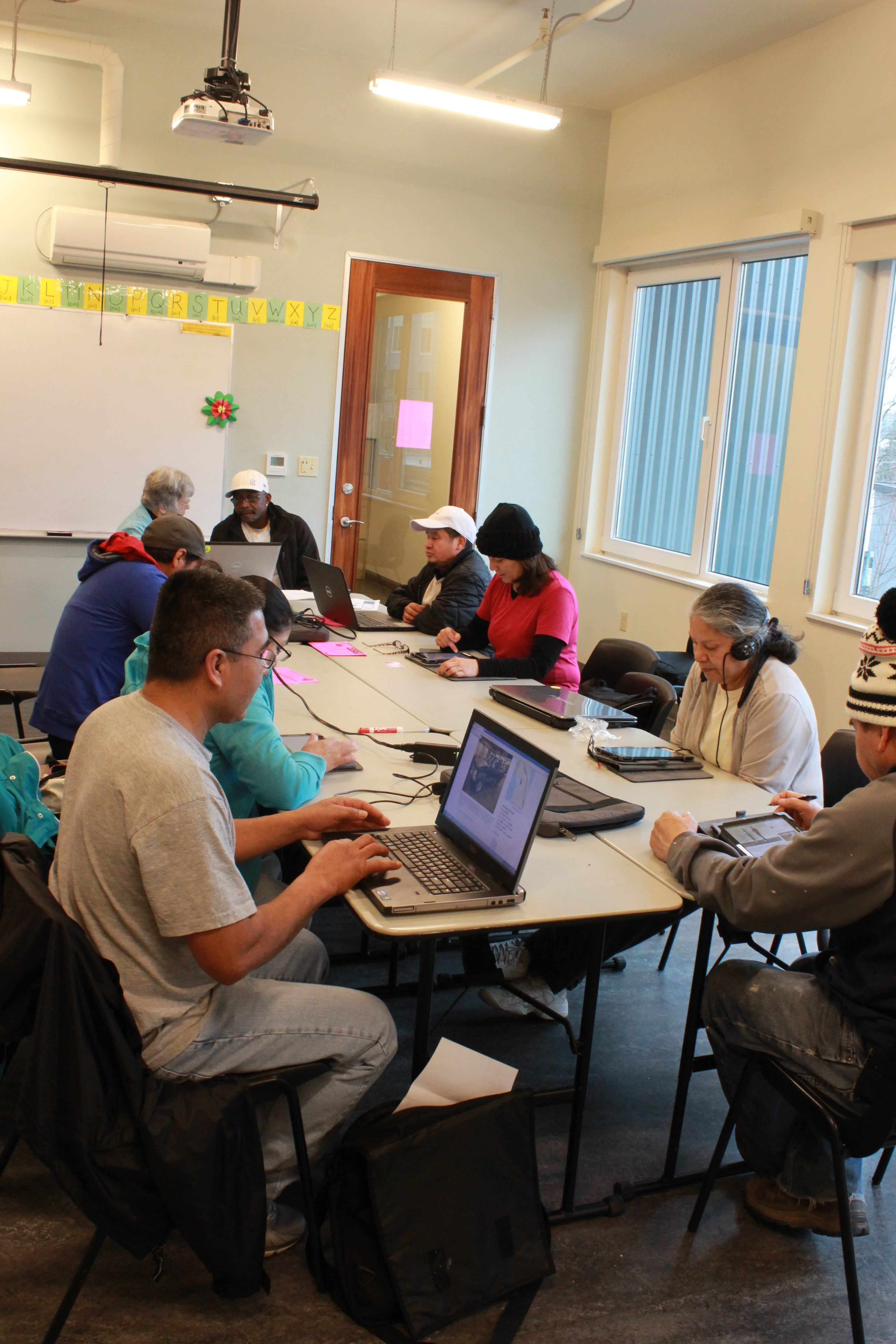 Learning computer literacy